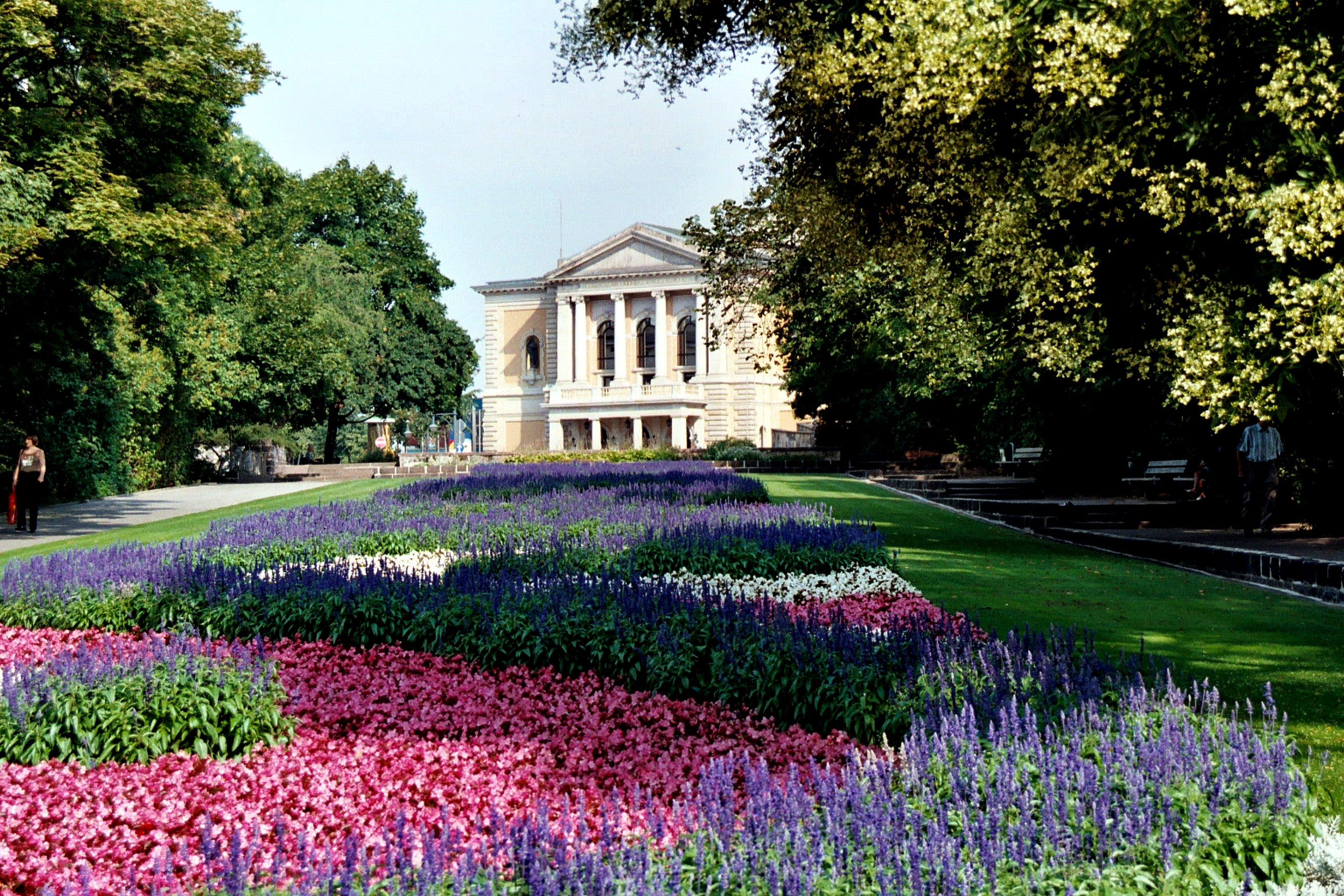 Halle (Saale), the Joliot-Curie-Platz, view to the opera house